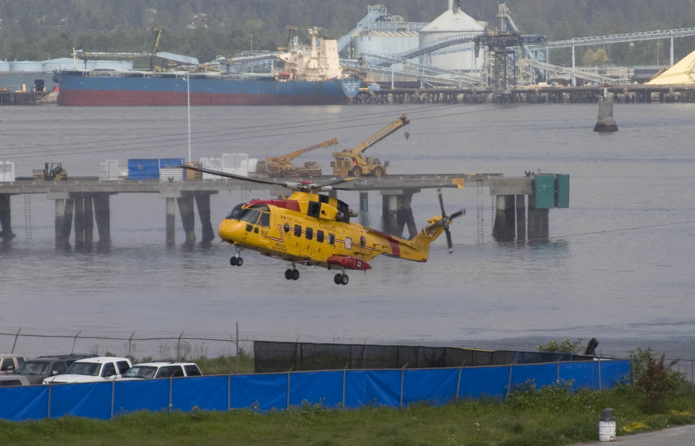 "The connection between the [Memorial] Cup and Canadian soldiers was evident Thursday. After arriving aboard the HMCS Vancouver, a CH-149 Cormorant Air Force search and rescue helicopter transported the trophy to an army convoy with the help of members of the Canadian Armed Forces. It was then strapped to the roof of a truck for a ride through downtown Vancouver." source The helicopter is based out of CFB Comox, the Air Force base in my hometown. Photo taken from the Bryght/NowPublic office with Roland's camera. See the story at NowPublic